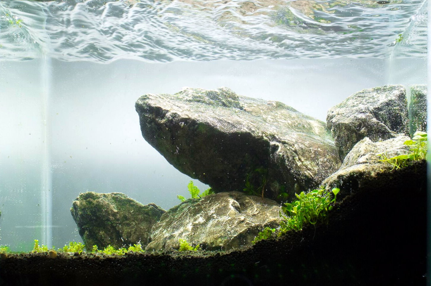 Little Aquascape Iwagumi